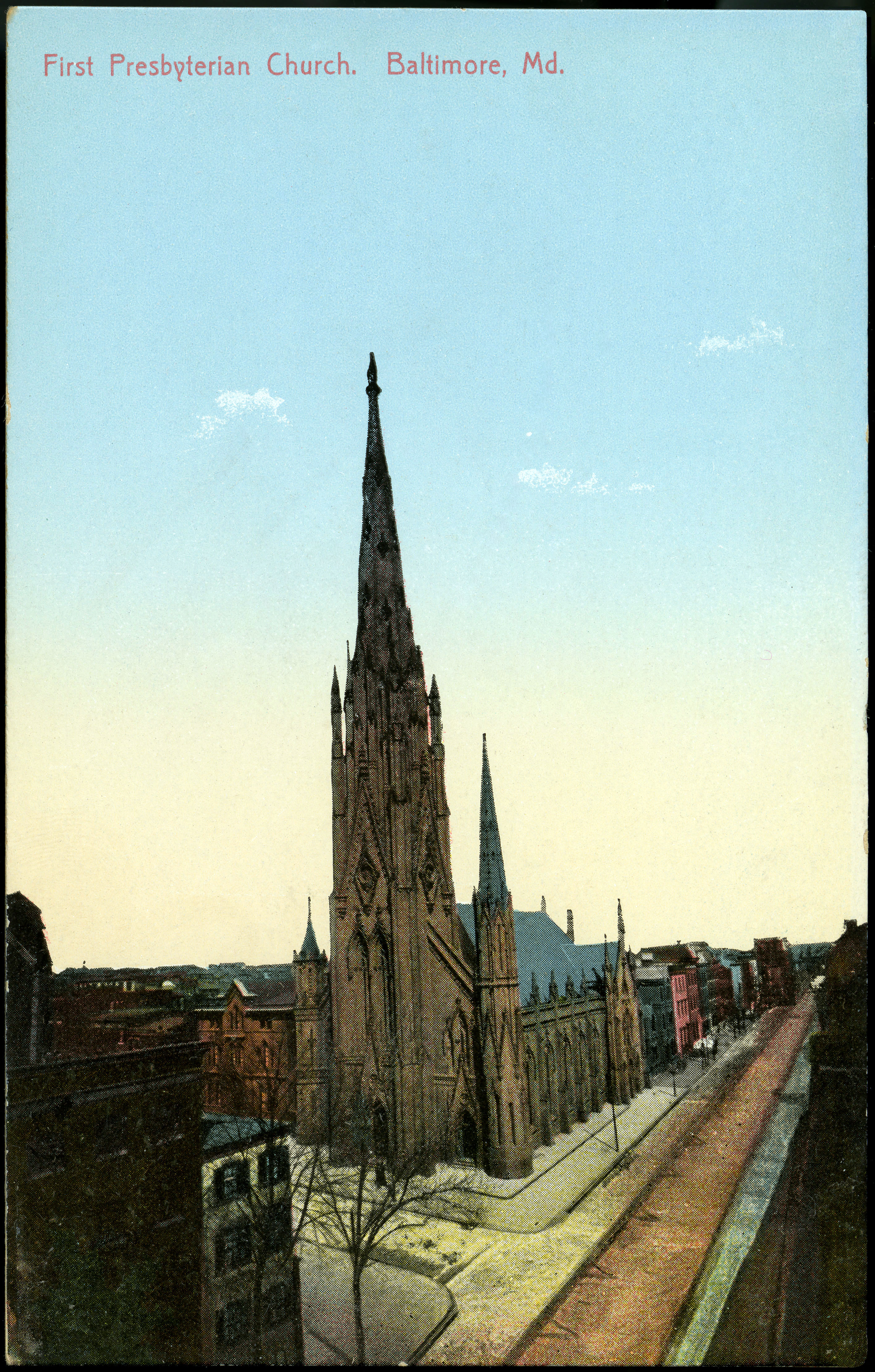 First Presbyterian church in Baltimore, Maryland from a pre-1923 postcard From RG 428, Postcard Collection, Presbyterian Historical Society, Philadelphia, Pennsylvania.